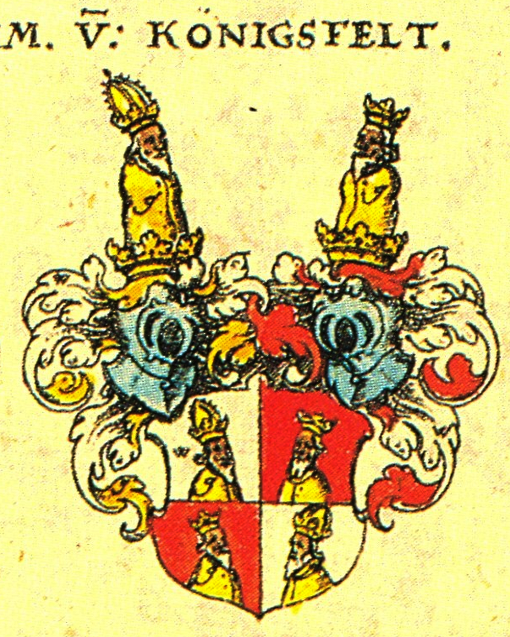 Coat of Arms of Königsfeld